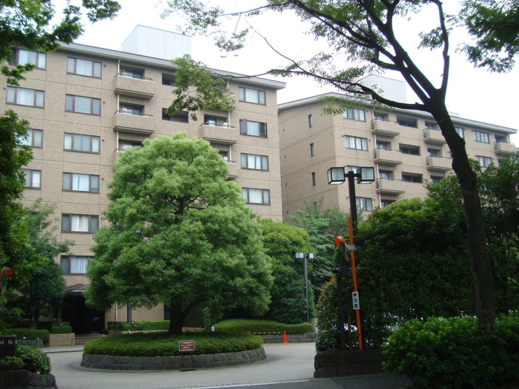 The North Hill section, Hiroo Garden Hills complex, Shibuya city, Tokyo